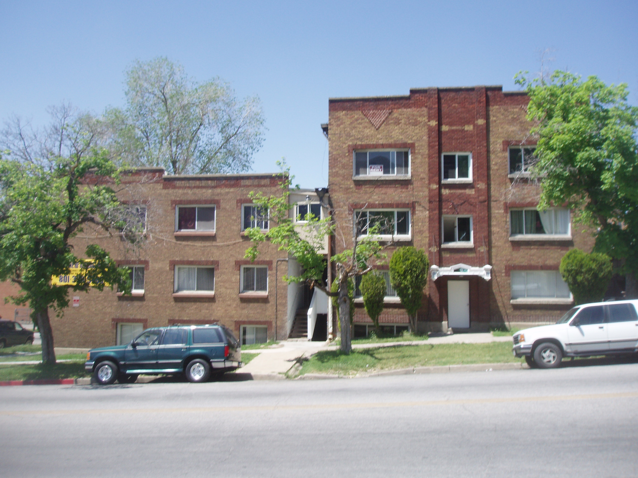 The Fern-Marylyn Apartments, a historic building in Ogden, Utah, United States.